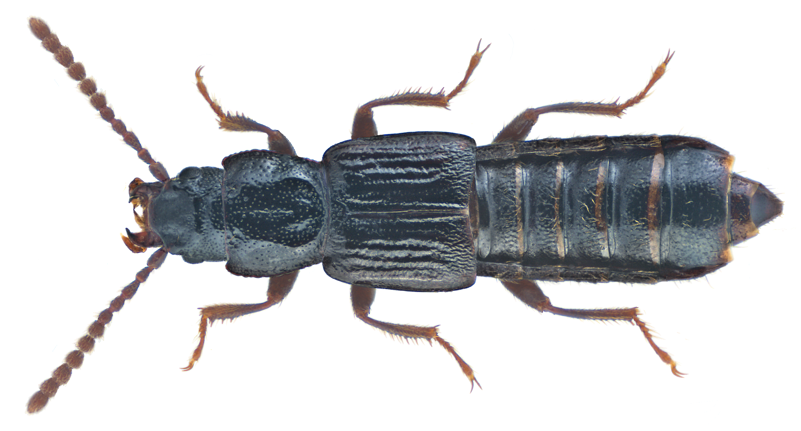 Family: Staphylinidae Size: 7,2 mm (5,3 to 7,2 mm) Origin: Europe Ecology: in decaying substances Location: Germany, Saxony, Plauen, Pirk, Weiße Elster valley leg.det. U.Schmidt, 3.IV.2002 Photo: U.Schmidt, 2015